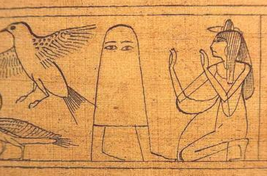 The god Medjed ("Smiter") depicted in the vignette on sheet 76 of the Greenfield papyrus of the Egyptian Book of the Dead.